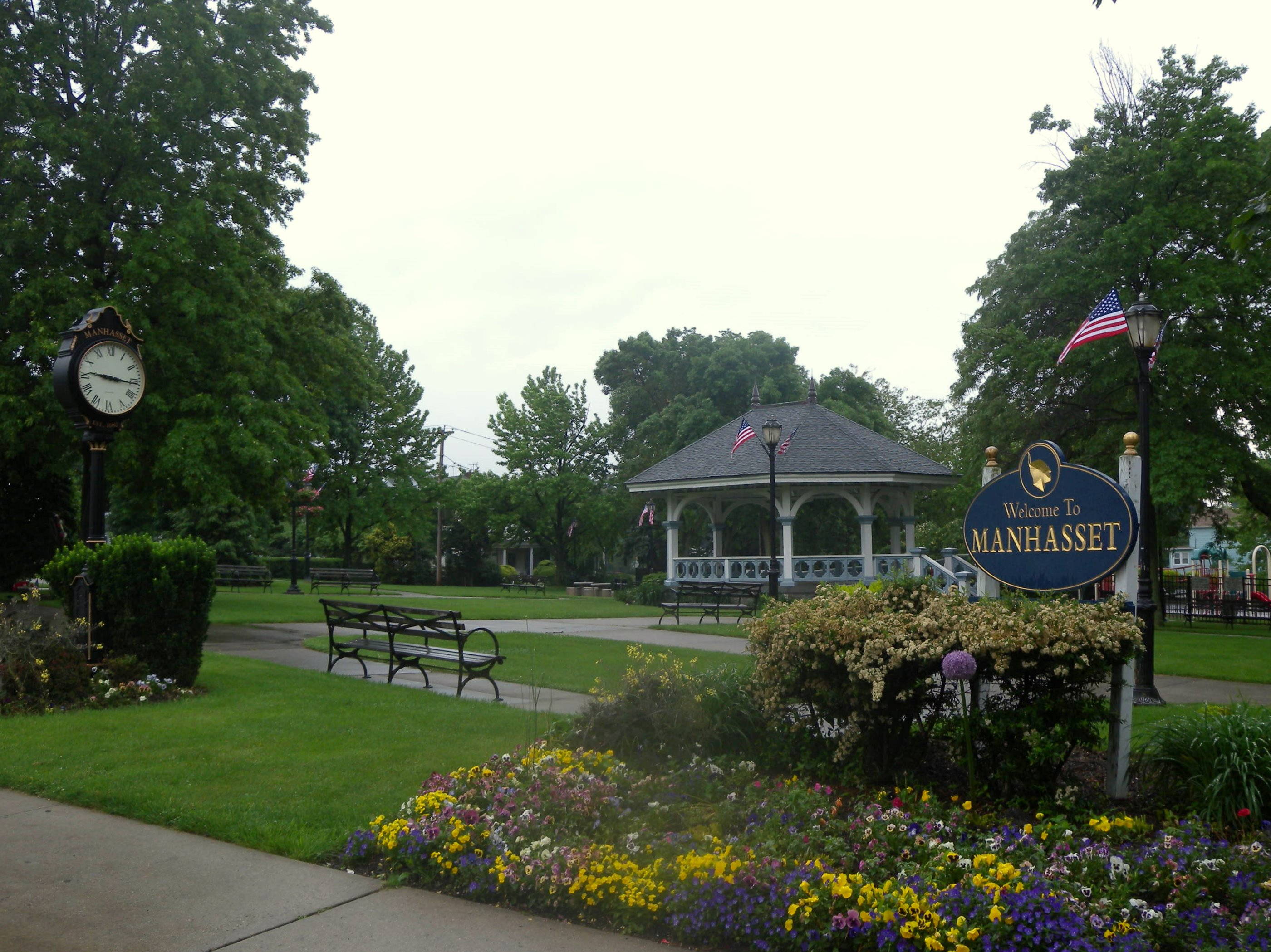 Looking southwest on a rainy morning from Plandome Road at the park where Plandome road school once stood.